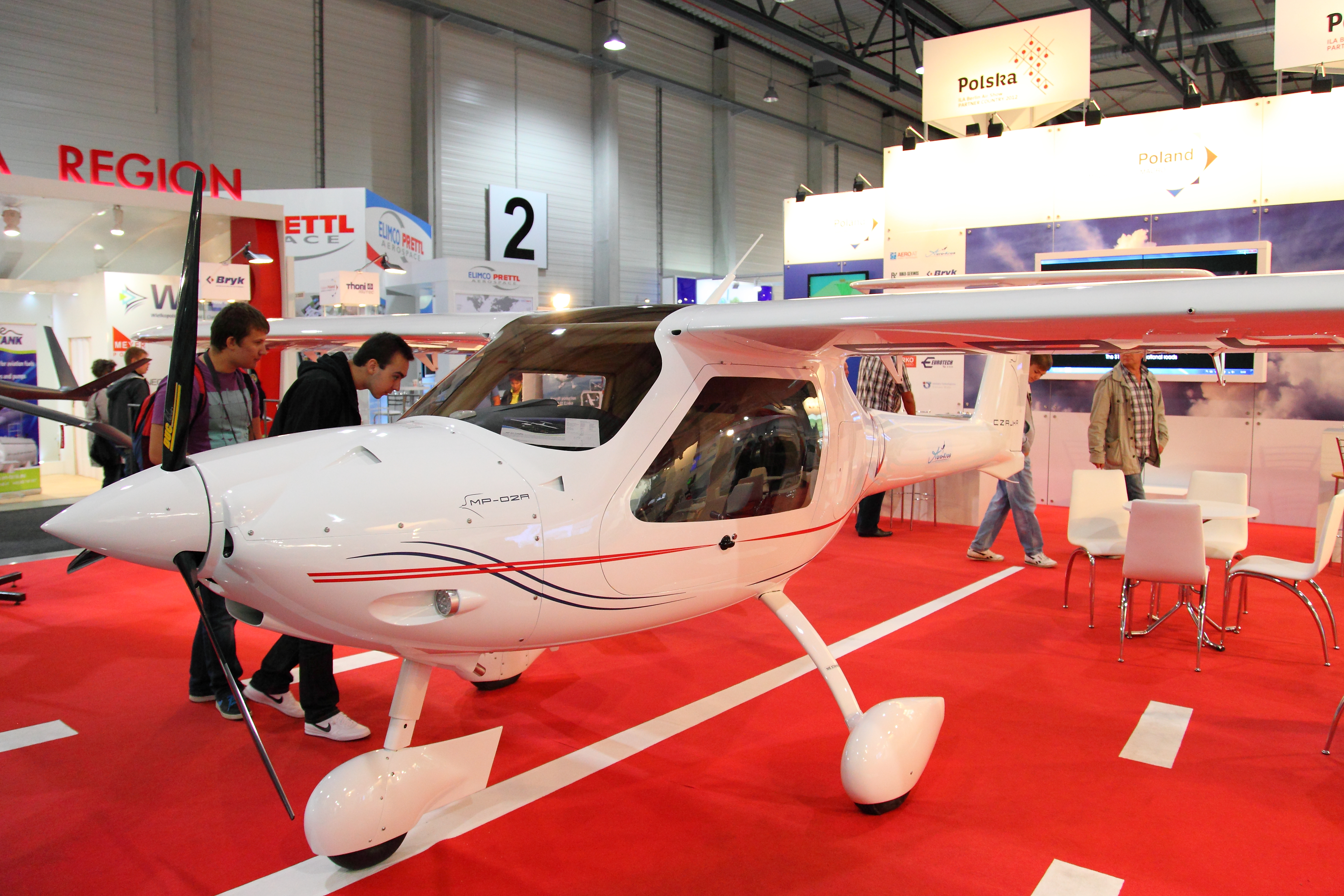 ILA Berlin Air Show 2012 ; MP-02 Czajka (manufacturer: Aero-Kros, Poland)